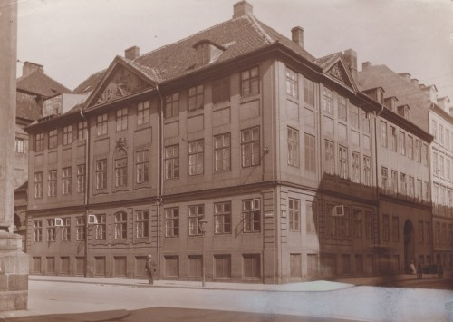 Titkens Gård at Bredgade 60 in Copenhagen, Denmark